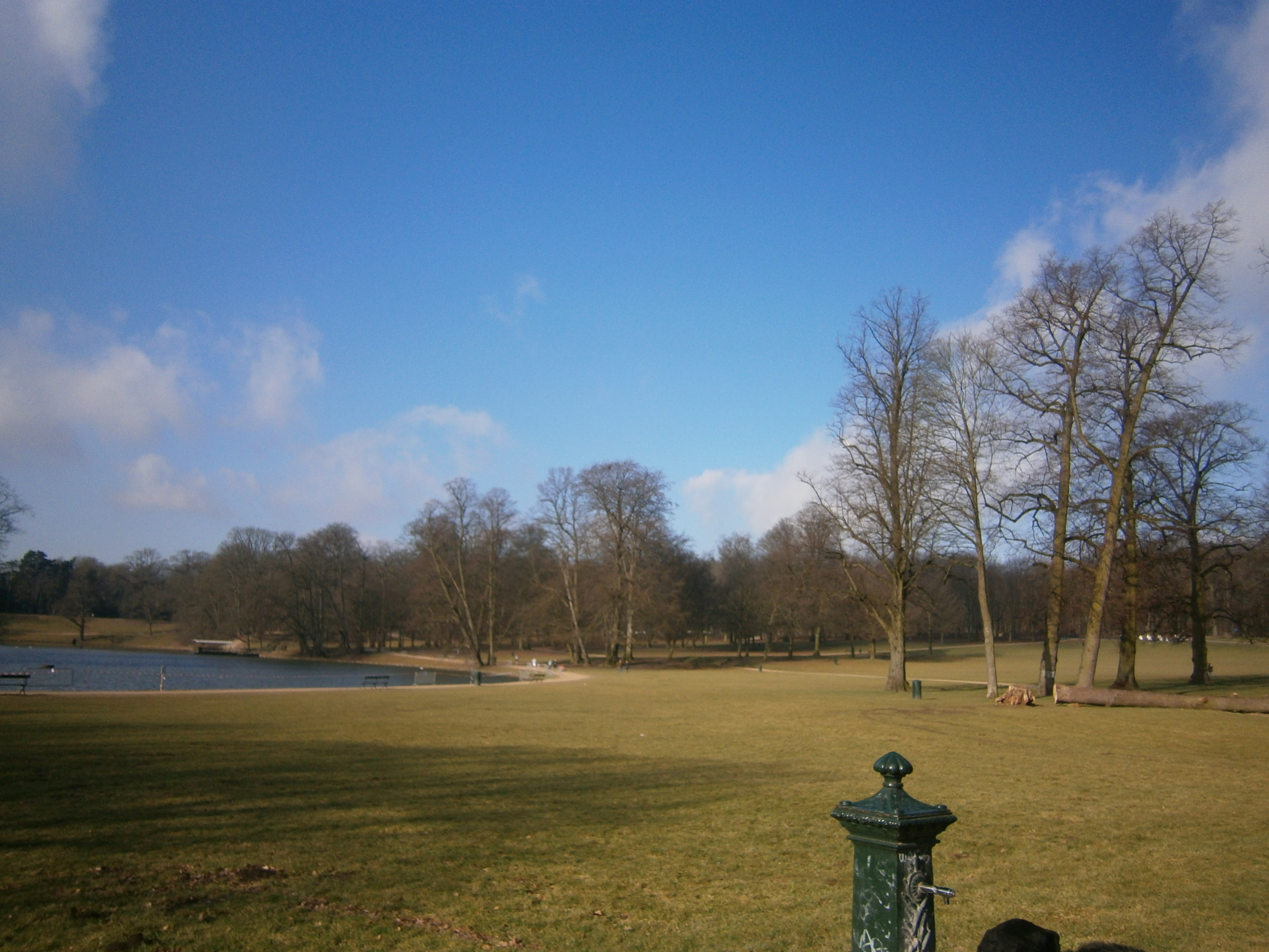 Bois de la cambre